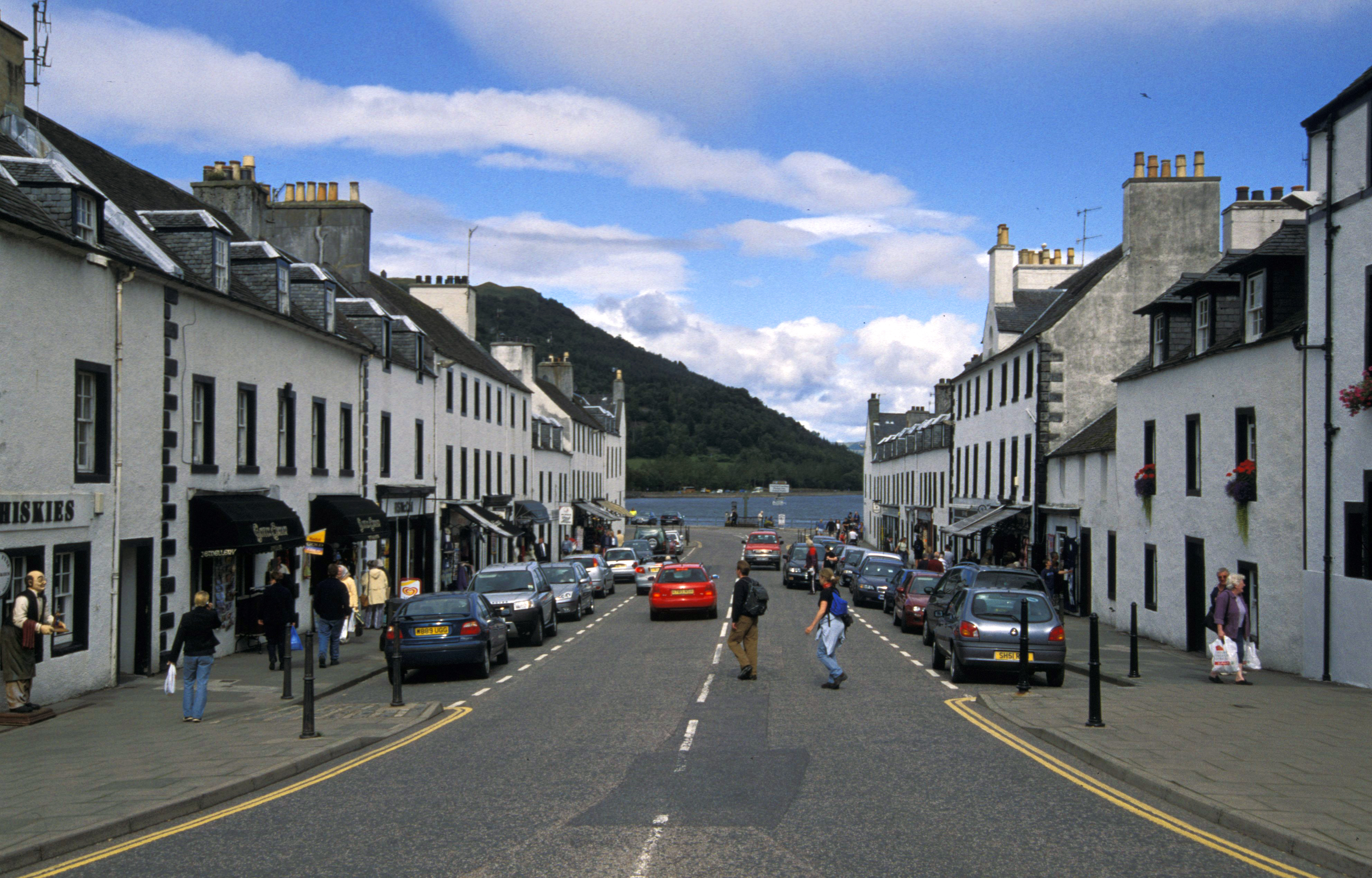 Inveraray, Scotland. Scanned from a slide photography taken 2003-08-29.